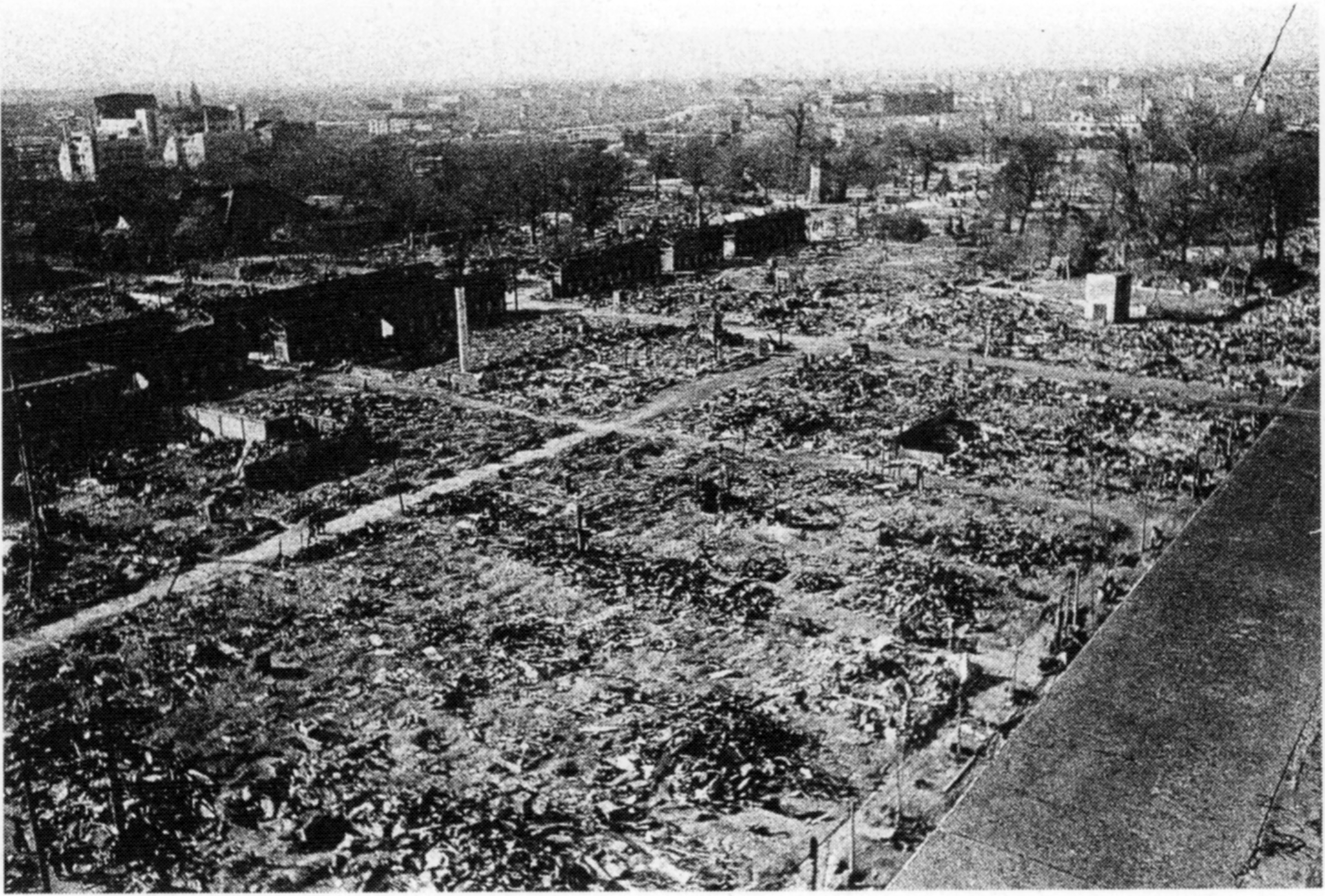 Destroyed Nakamise-dōri seen from the top of Asakusa Matsuya Department Store